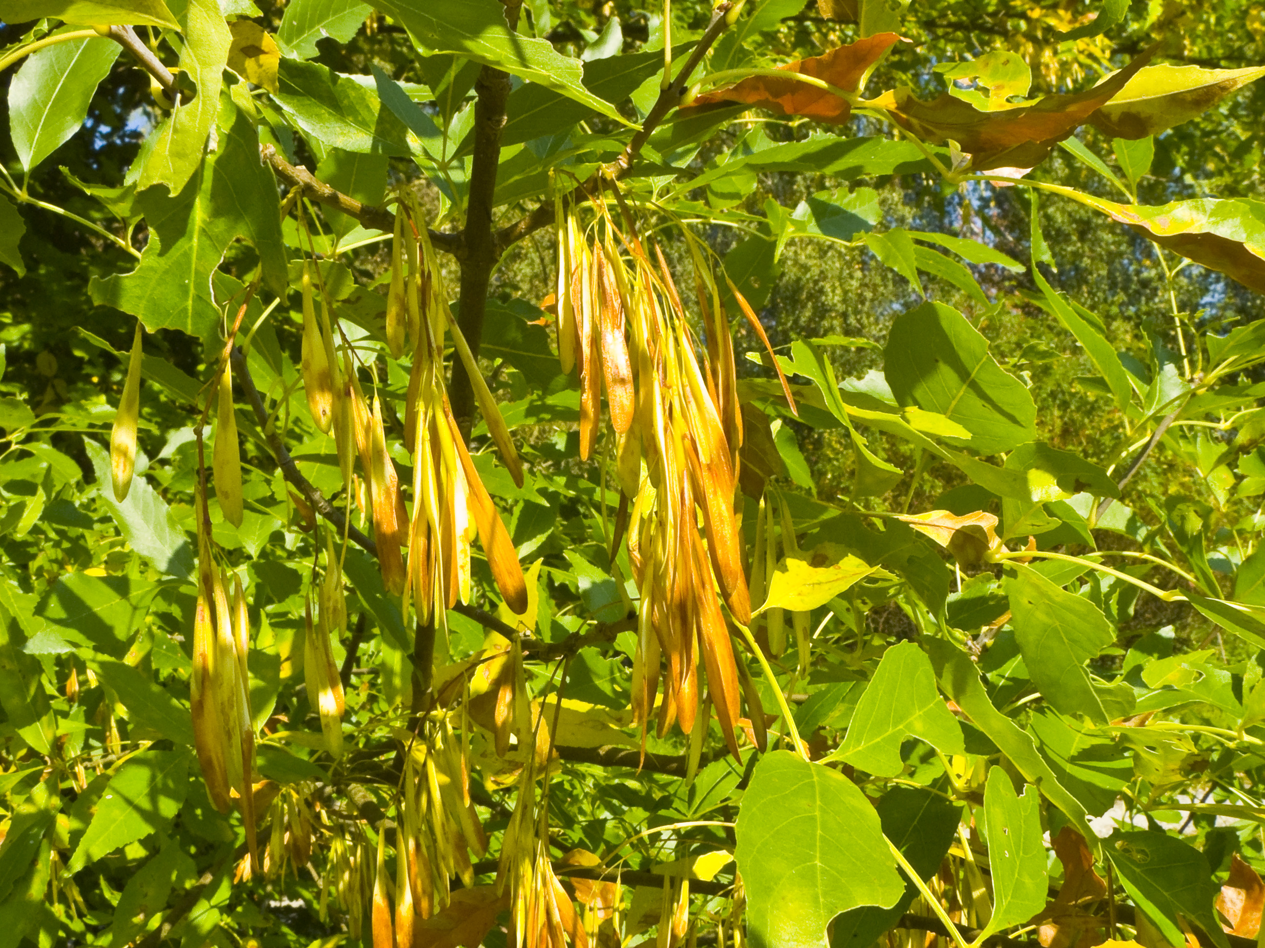 Flowering Ash (Fraxinus ornus), Location: Arboretum Main-Taunus, Eschborn, Hesse, Germany